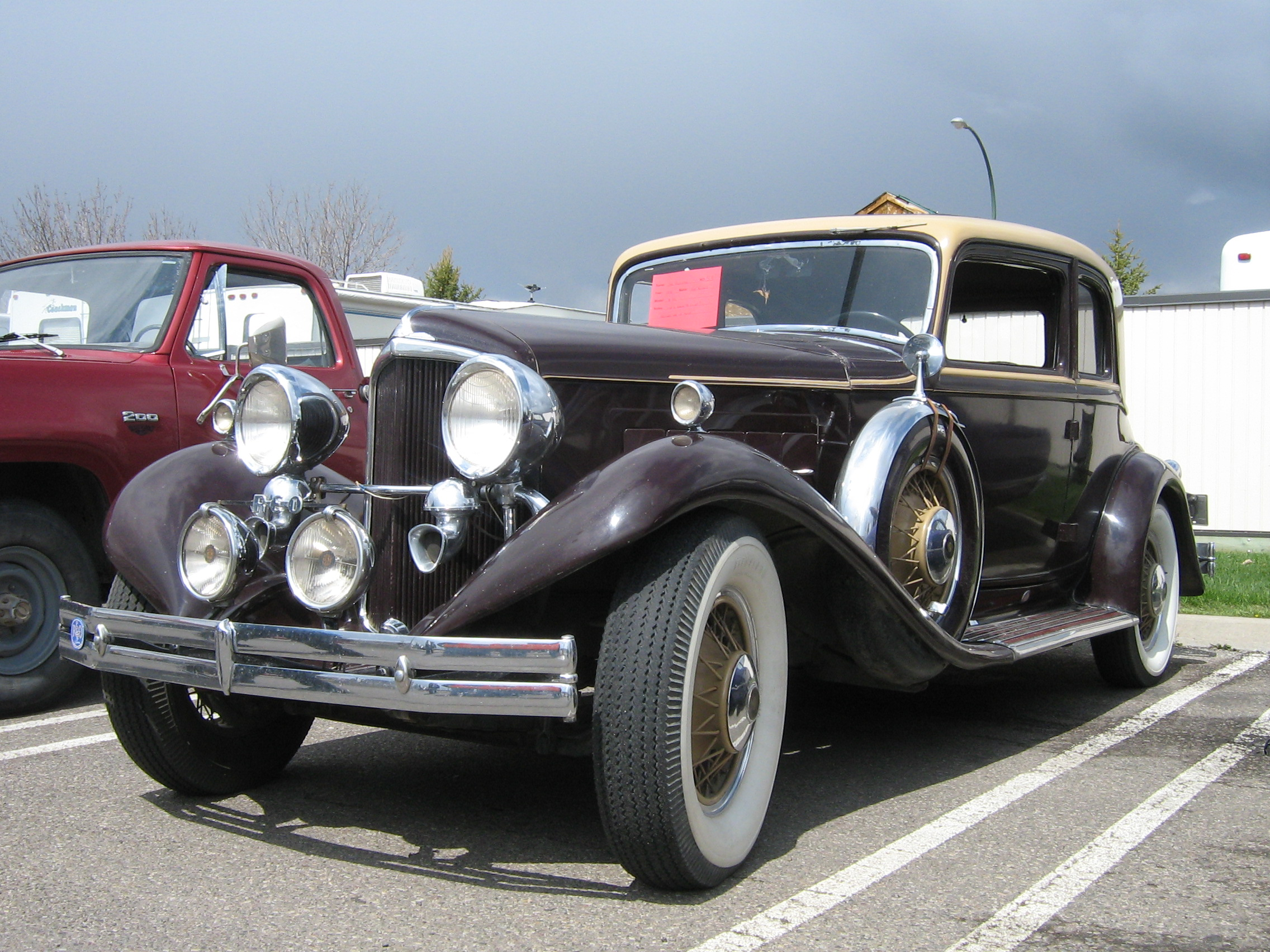 1931 Reo Royale 8-35 - according to the sign its one of six left.